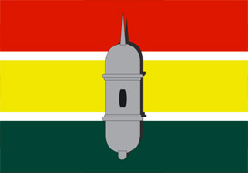 Flag of the city of Macapá, the capital of Amapá, whose acronym is "AP"